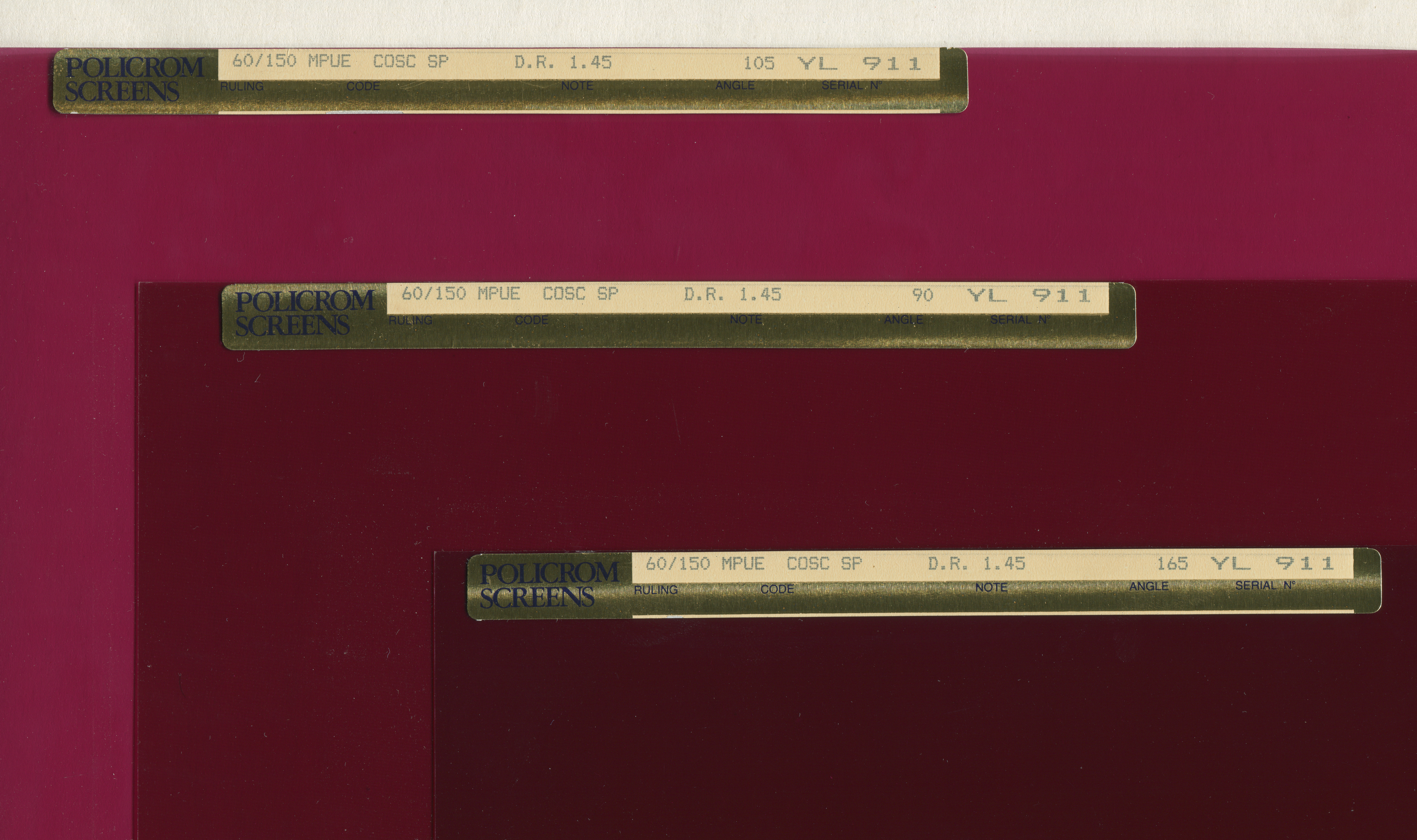 Screens. Halftone process in printing. Purple Screens. Angles 90, 105 , 165.